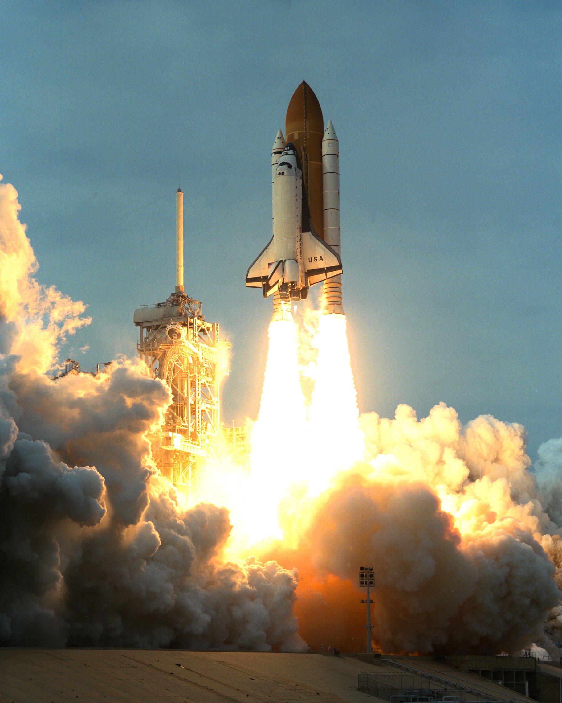 Like a rising sun lighting up the afternoon sky, the Space Shuttle Columbia soars from Launch Pad 39B at 19:46:00, November 19, on the fourth flight of the United States Microgravity Payload and Spartan-201 satellite. The crew members include Mission Commander Kevin Kregel.; Pilot Steven Lindsey; Mission Specialists Kalpana Chawla, Ph.D., Winston Scott, and Takao Doi, Ph.D., of the National Space Development Agency of Japan; and Payload Specialist Leonid Kadenyuk of the National Space Agency of Ukraine. During the 16-day STS-87 mission, the crew will oversee experiments in microgravity; deploy and retrieve a solar satellite; and test a new experimental camera, the AERCam Sprint. Dr. Doi and Scott also will perform a spacewalk to practice International Space Station maneuvers